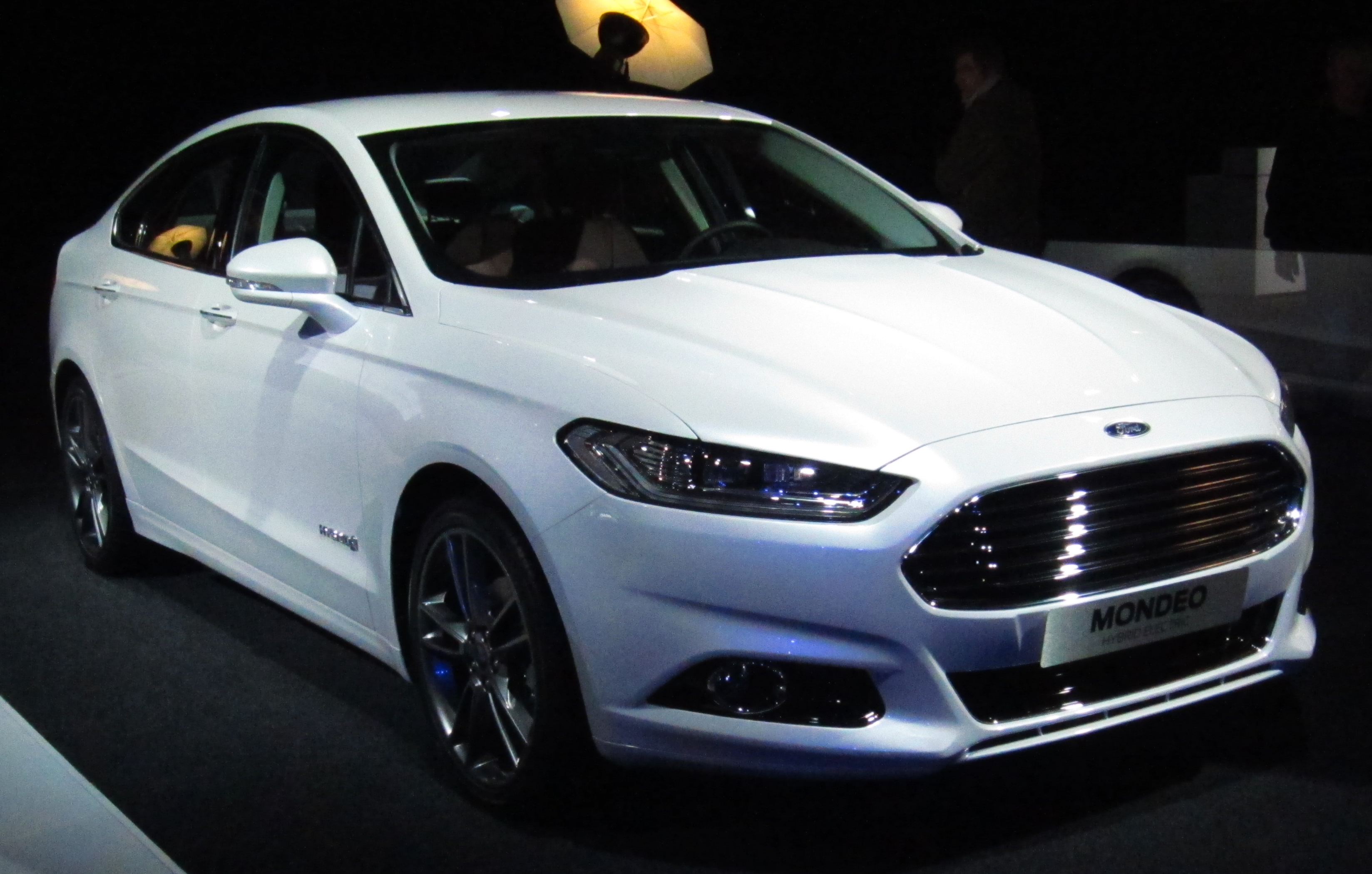 Ford Mondeo Mk V HEV Hybrid sedan at Mondial de l'Automobile Paris 2012